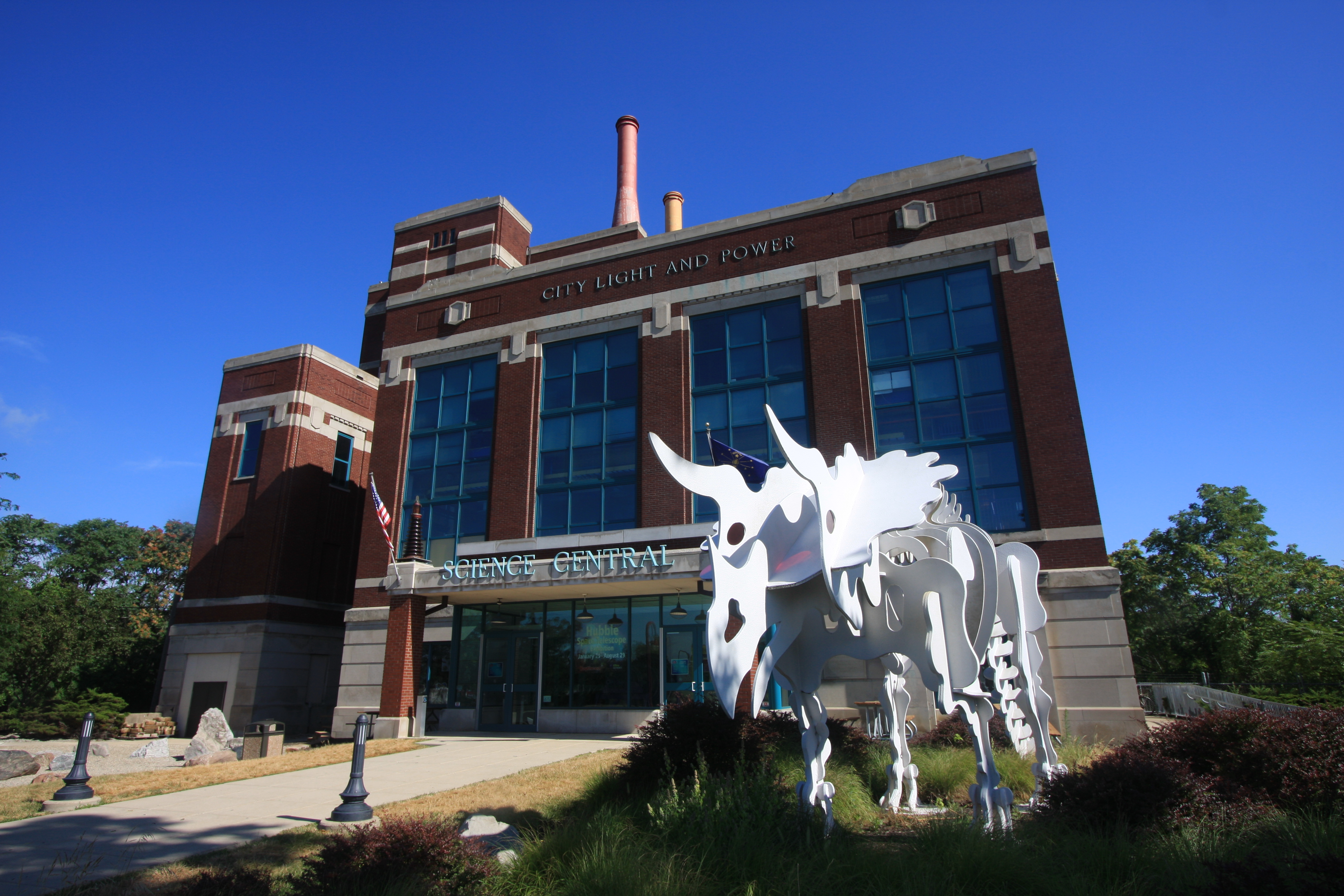 View of Science Central entrance